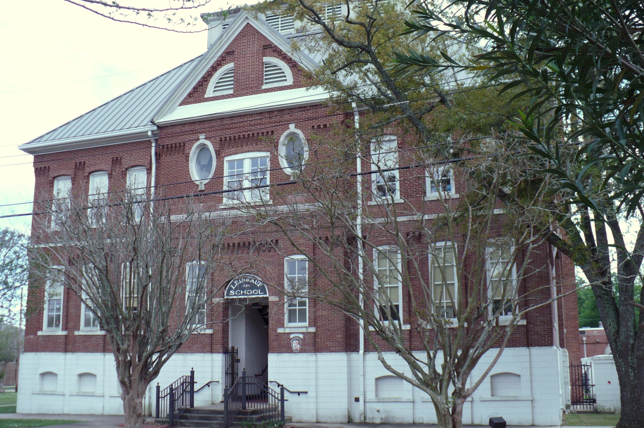 The Leinkauf School in Mobile, Alabama, United States.